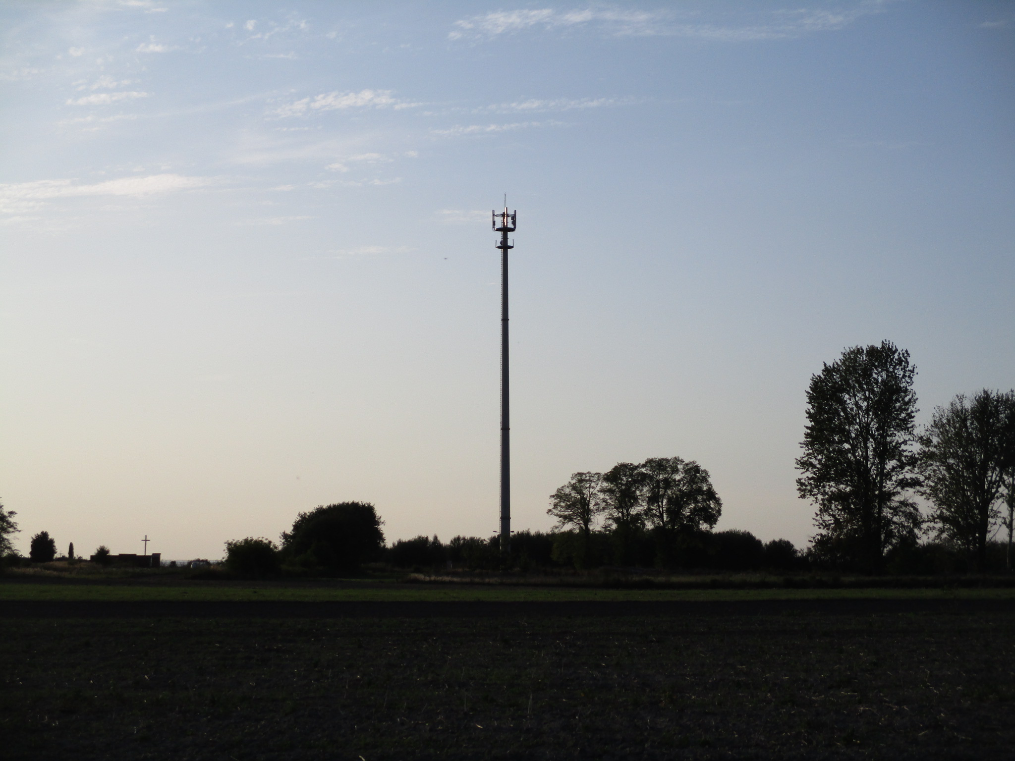 Telecomunication mast in Chmiel Pierwszy